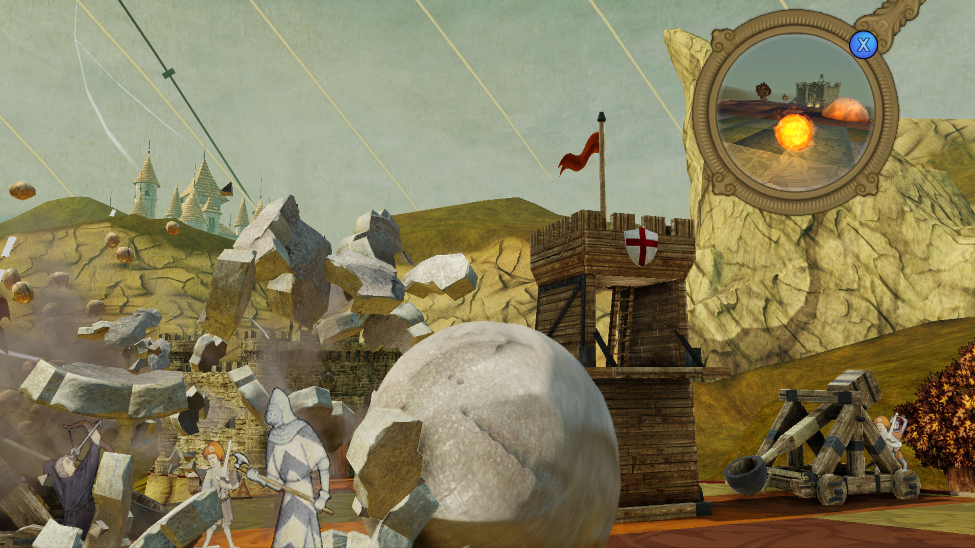 Rock of Ages screenshot, developed by ACE Team and released in 2011. The game is built on Unreal Engine 3.